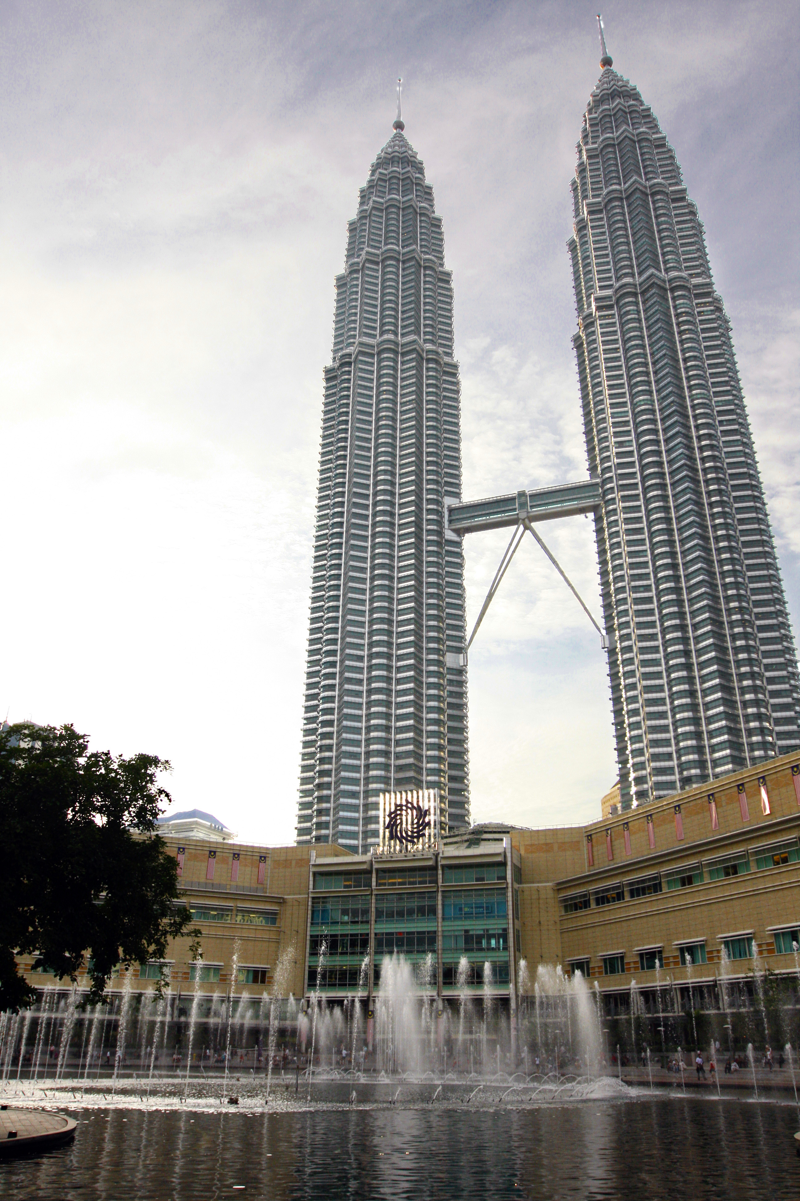 Photo of the Petronas Twin Towers in Kuala Lumpur with the Suria KLCC shopping complex in the foreground.